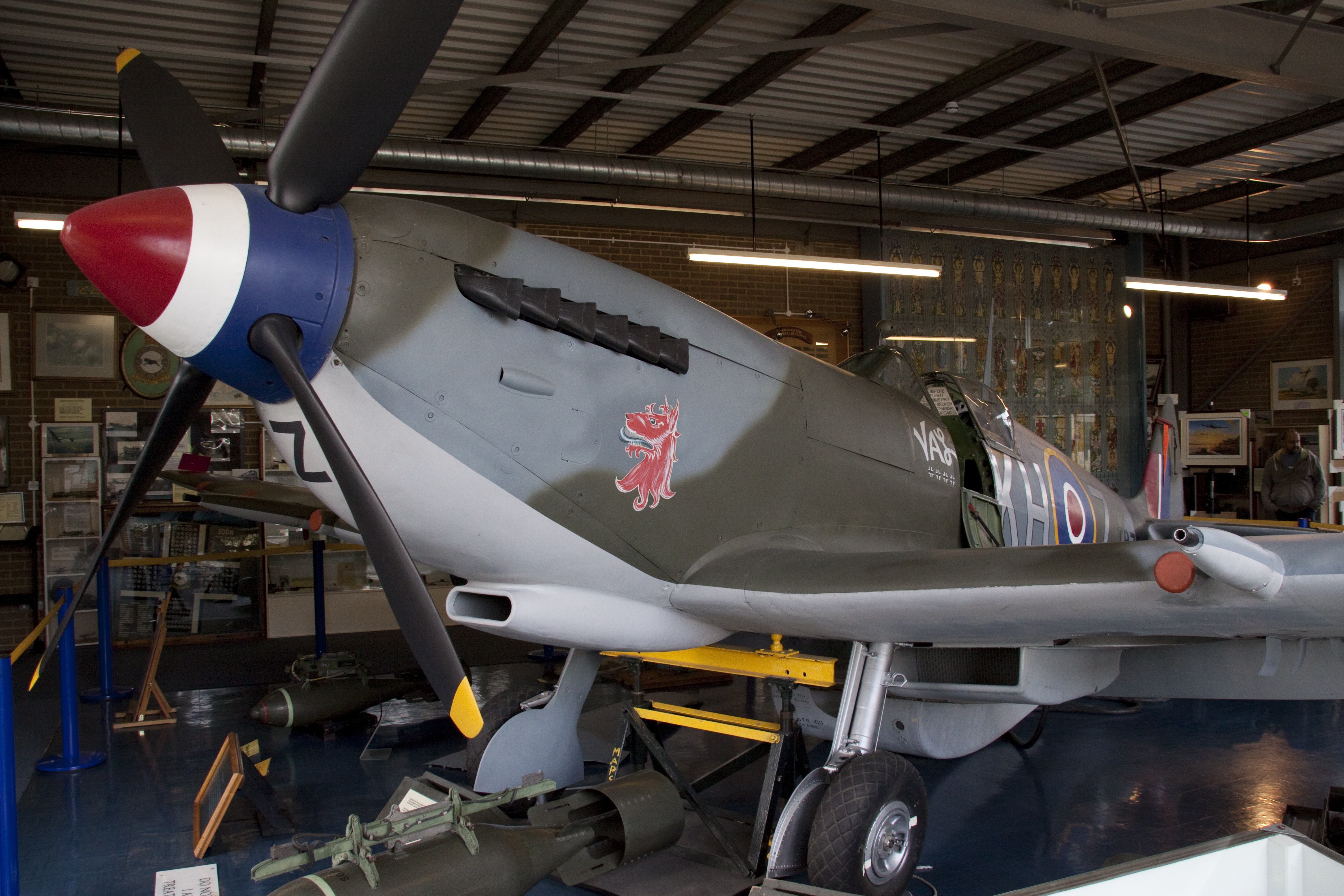 Spitfire Manston